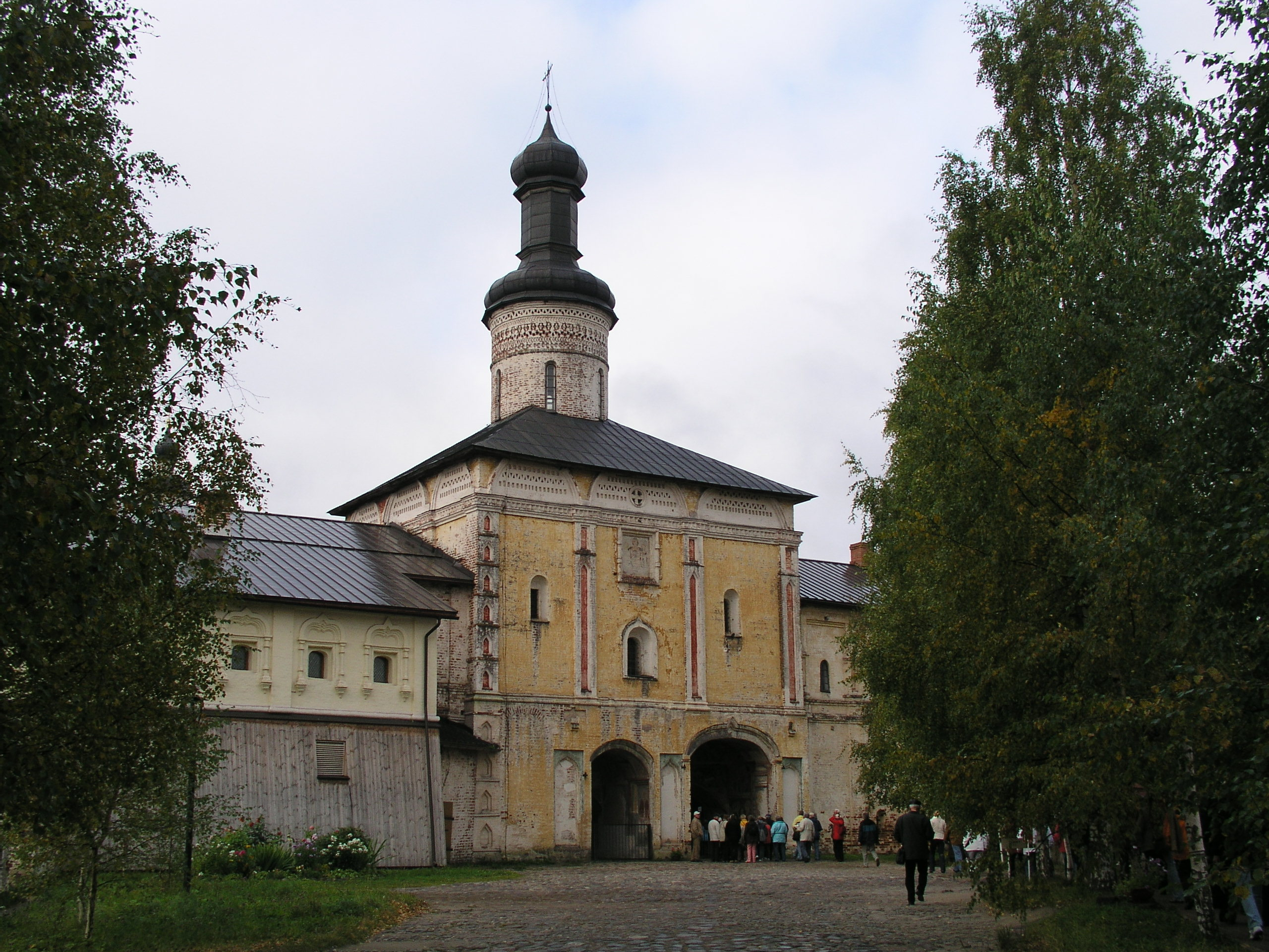 Kirillo-Belozersky Monastery. Ioann Lestvechnik Church (1572) and Saint Gate (1523)